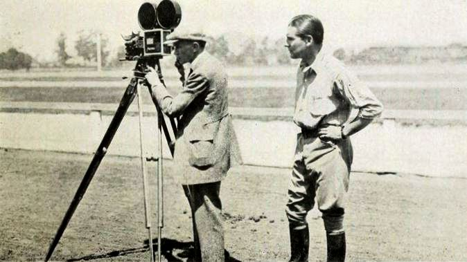 Still from the production of Turn to the Right (1922) with director Rex Ingram. Although not listed in the caption, the man at the camera appears to be cinematographer John F. Seitz. On page 63 of Peter Milne, Motion Picture Directing; The Facts and Theories of the Newest Art (1922).